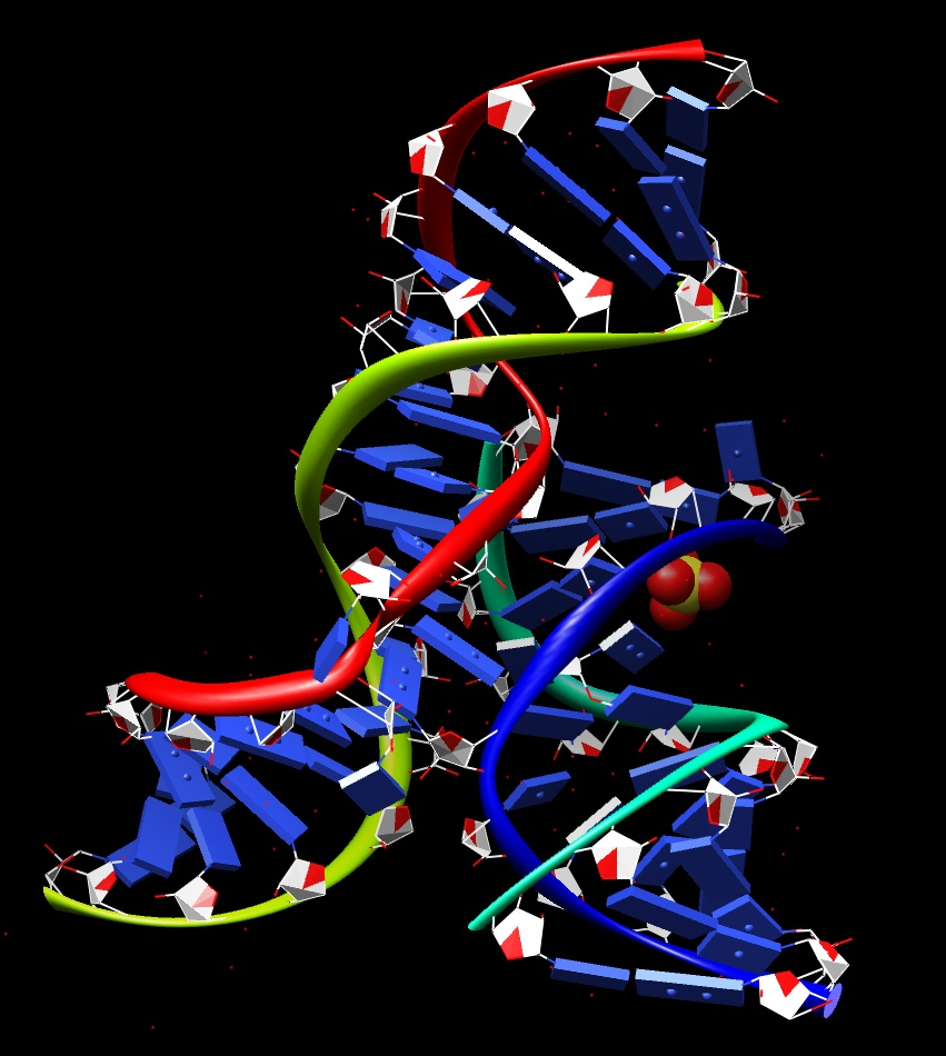 Hairpin-ribozyme-crystal-structure-UR0109